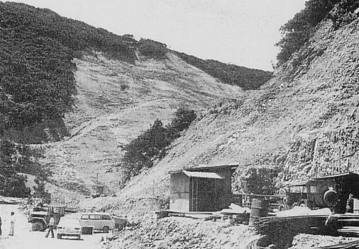 Fukuji Dam under construction